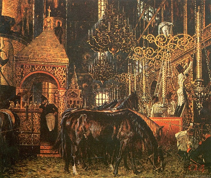 French troops stabling their horses in Uspensky Cathedral, Moscow, during Napoleon's invasion of Russia in 1812